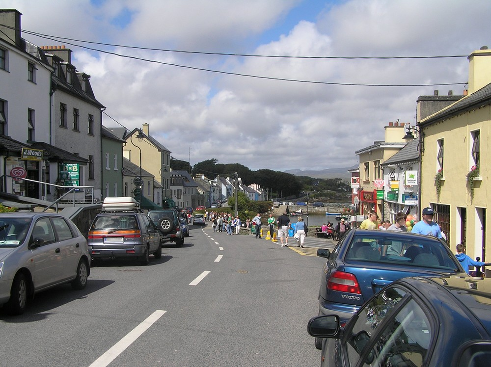 Main street of Roundstone (the R341 road) in Co Galway, Ireland on 15th Aug 2009